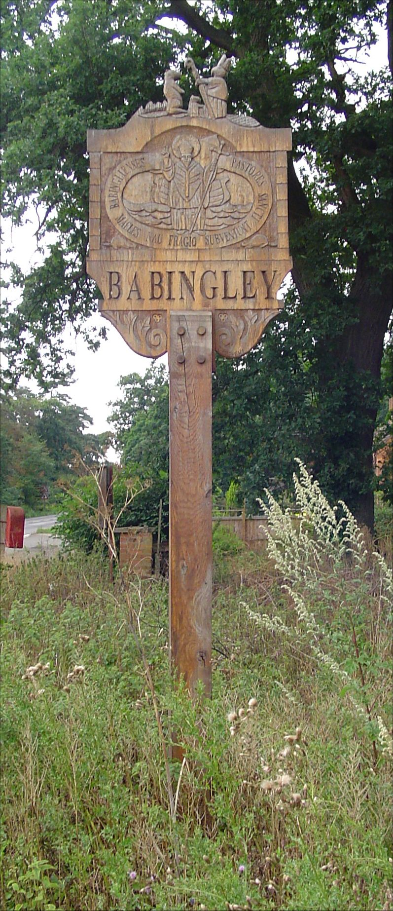 Signpost in Babingley